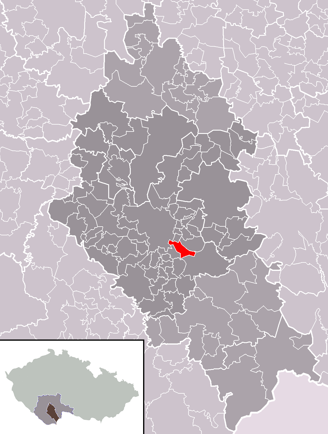 Location of Srubec municipality within České Budějovice District and administrative area of České Budějovice as a Municipality with Extended Competence.